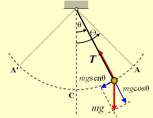 Pendulum (Physics)